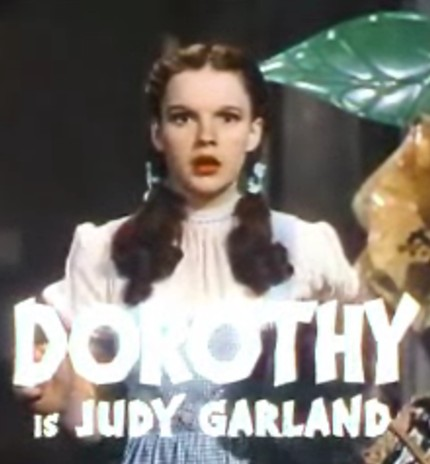 Cropped screenshot of Judy Garland from the trailer for the film The Wizard of Oz.